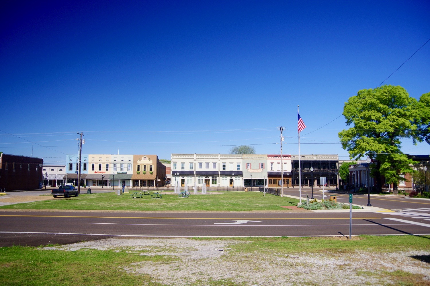 Buildings along Lindell Street in Martin, Tennessee, United States, viewed from Broadway Street.